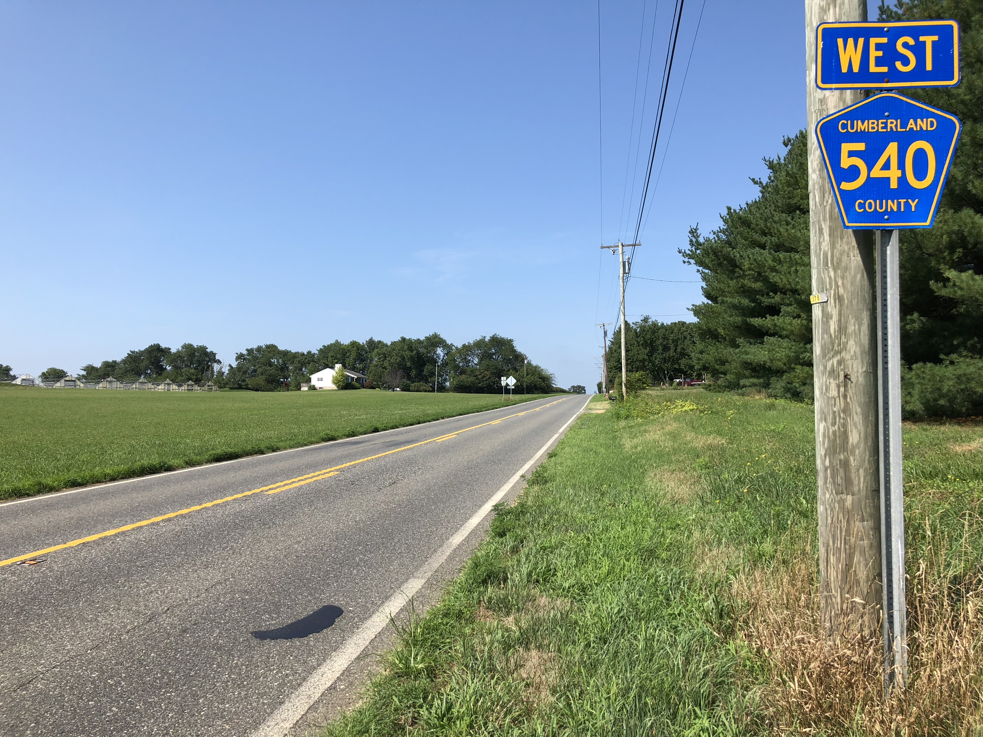 View west along Cumberland County Route 540 (Pecks Corner-Cohansey Road) just west of Cumberland County Route 723 (Seeley-Cohansey Road) in Hopewell Township, Cumberland County, New Jersey